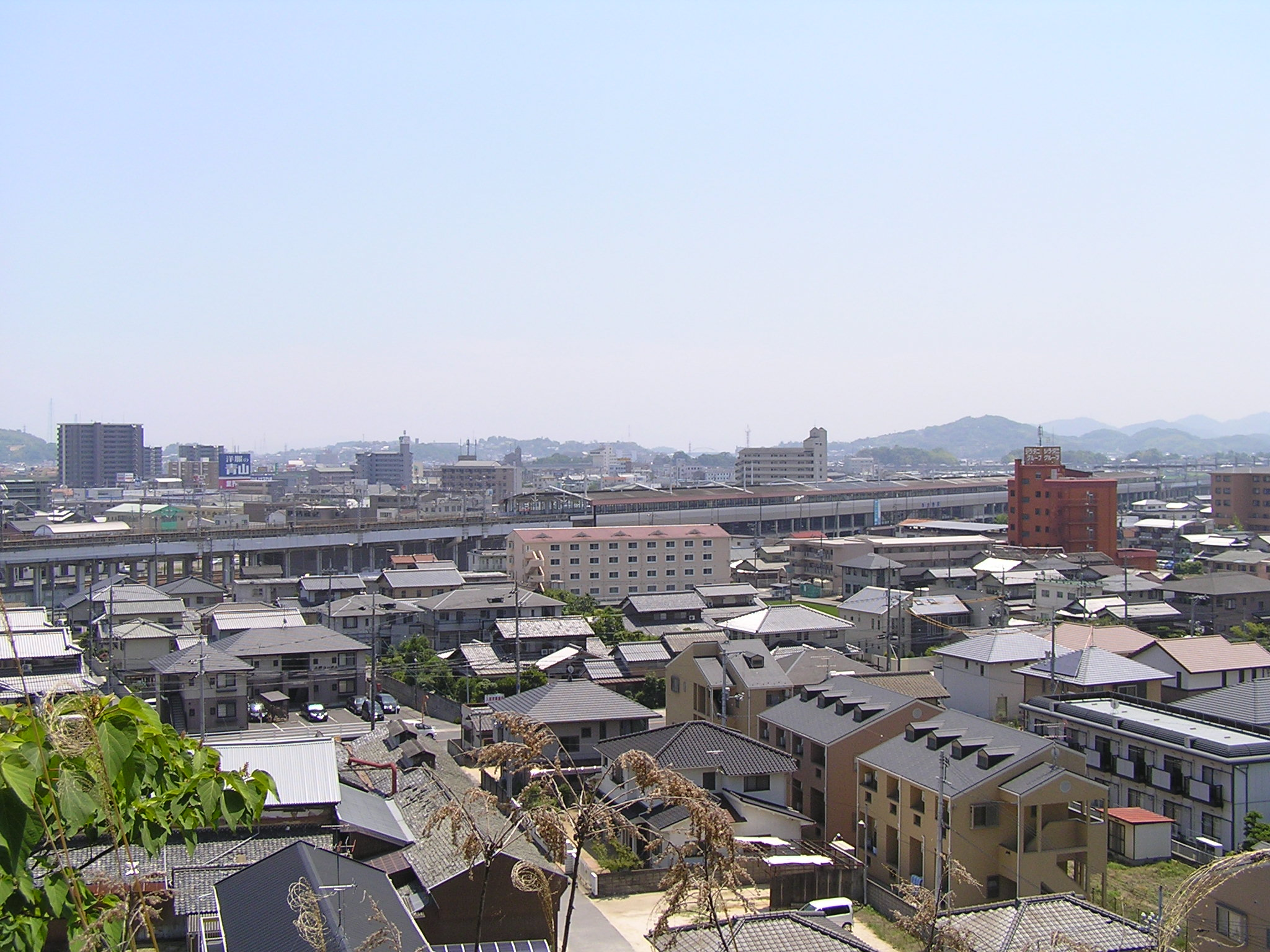 Urban area around Shin-Kurashiki Station